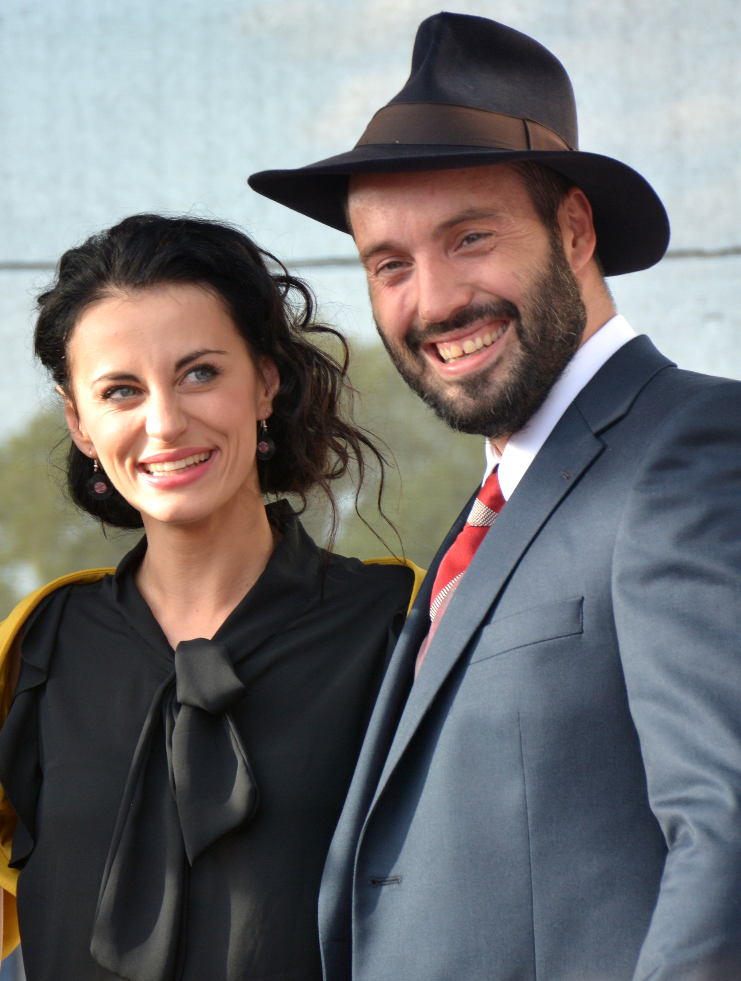 Markéta Procházková and Václav Noid Bárta, Czech vocalists, as Bonnie & Clyde